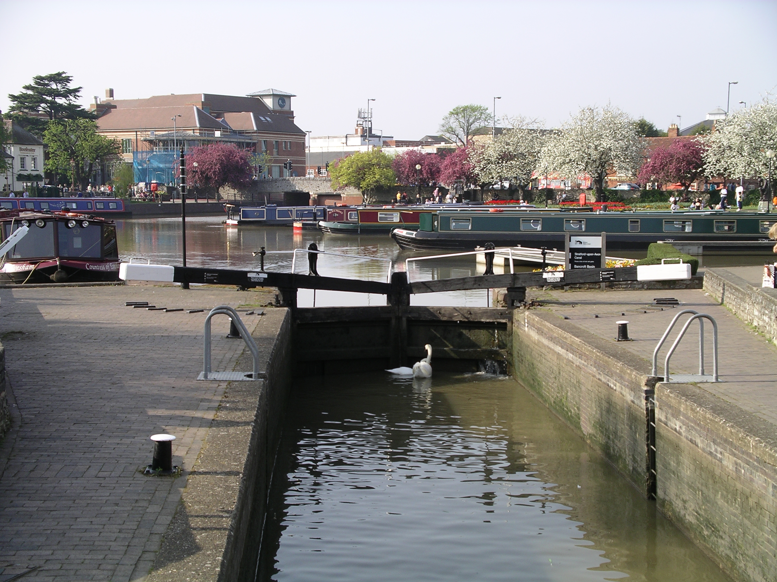 One of the two lock gates between the River Avon and the Stratford-on-Avon canal, Warwickshire, England. It is near to the Royal Shakespeare Theatre. Canal boats are also shown.